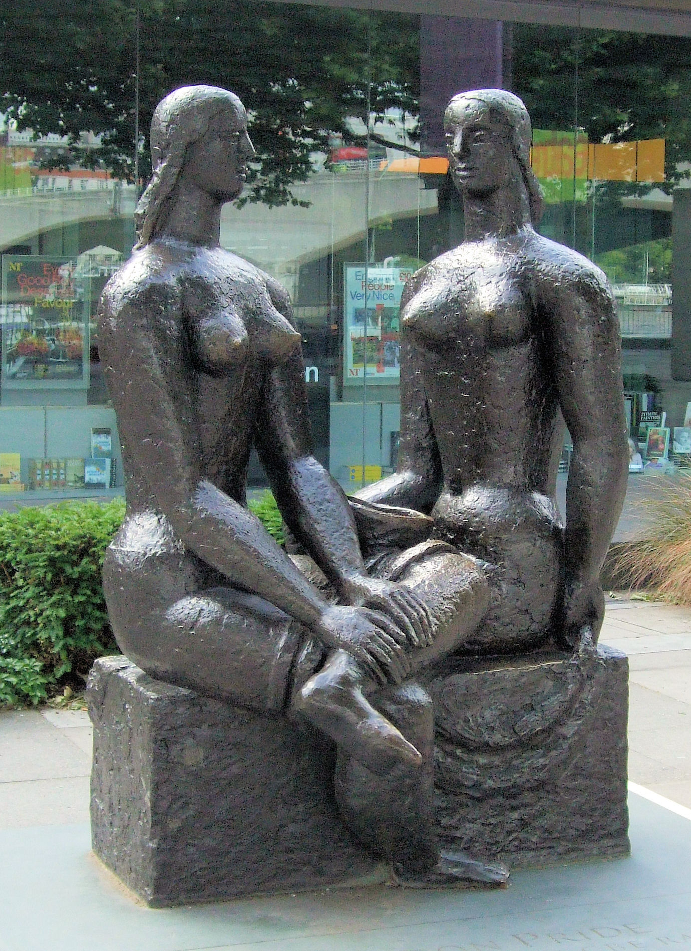 'London Pride' Sculpture, 1987, Frank Dobson at South Bank, London/U.K. Situated outside the National Theatre. Cast from the plaster original commissioned for the Festival of Britain. Two larger than life-sized women are seated on a plinth. Plaque is set on the walkway before it. Plaque reads: "London Pride" Frank Dobson (1886-1963). Commissioned for The Festival Of Britain 1951. Given by Mary Dobson 1987 and placed on the South Bank. Assisted generously by Lynton Property & Reversionary Plc and The Henry Moore Foundation. Arts Council Of Great Britain.